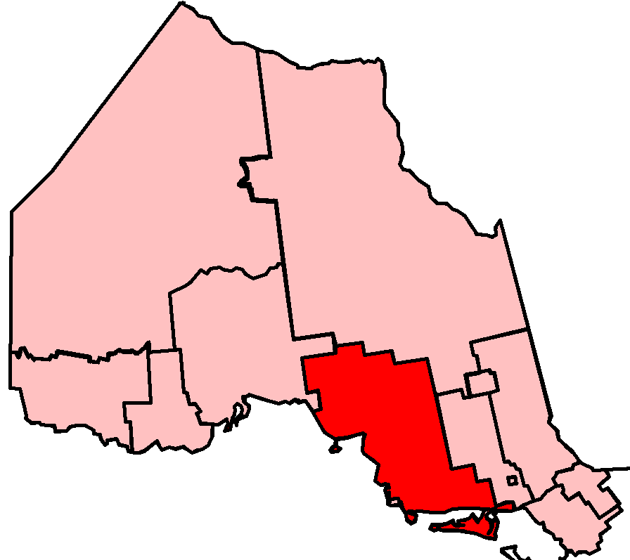 Algoma—Manitoulin 2018 boundaries